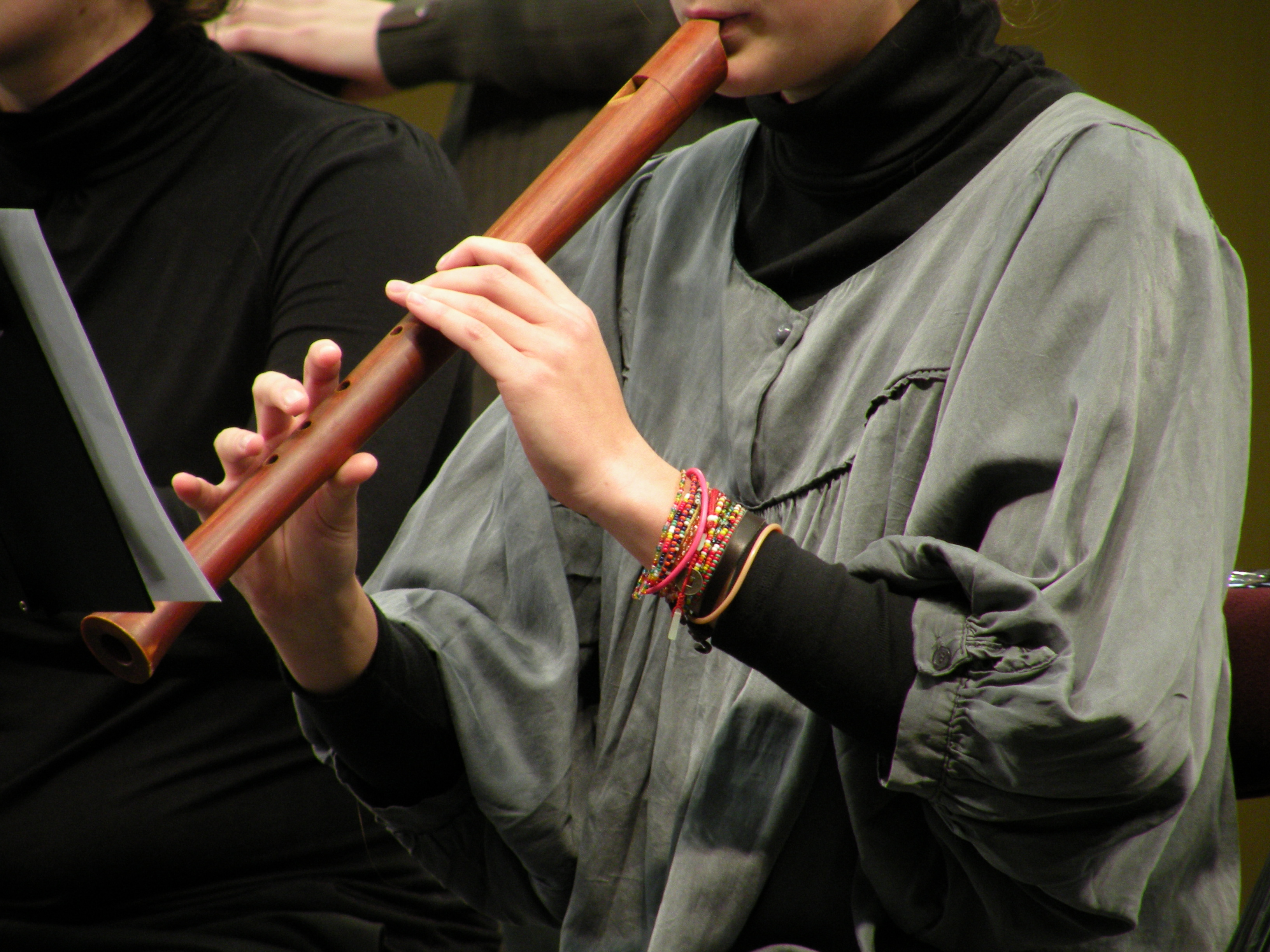 La Folle Journée in Nantes, 31 january 2009, grande halle de Lübeck : baroque alto recorder from Nantes' Ensemble de musique ancienne.